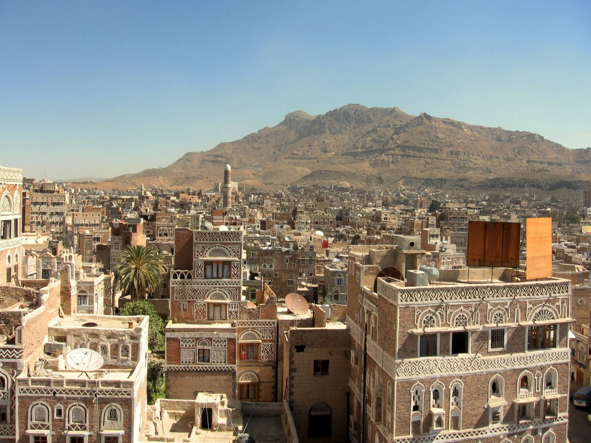 Sana'a from the roof